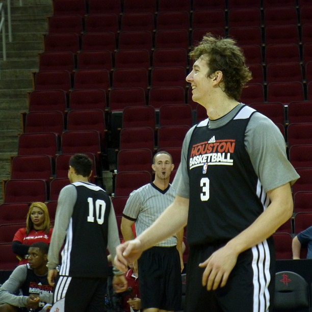 Houston Rockets